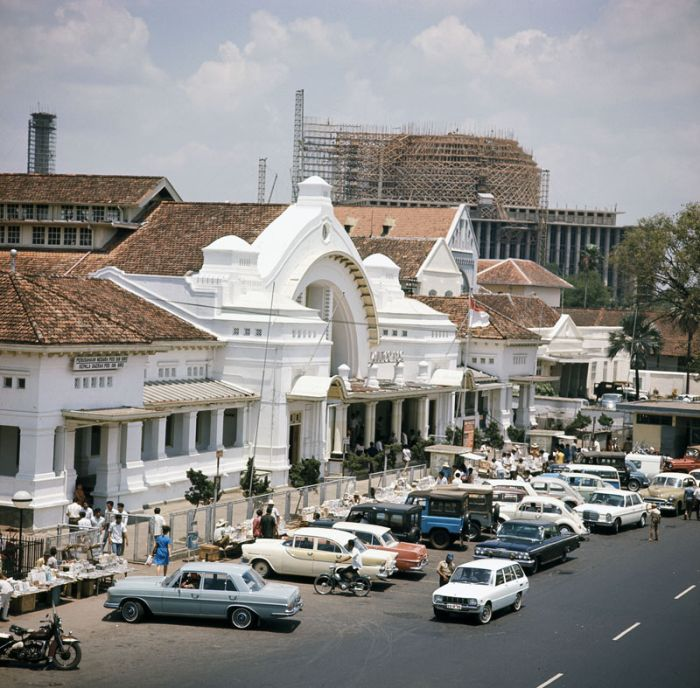 The main postoffice and the Istiqlal mosque (under construction)